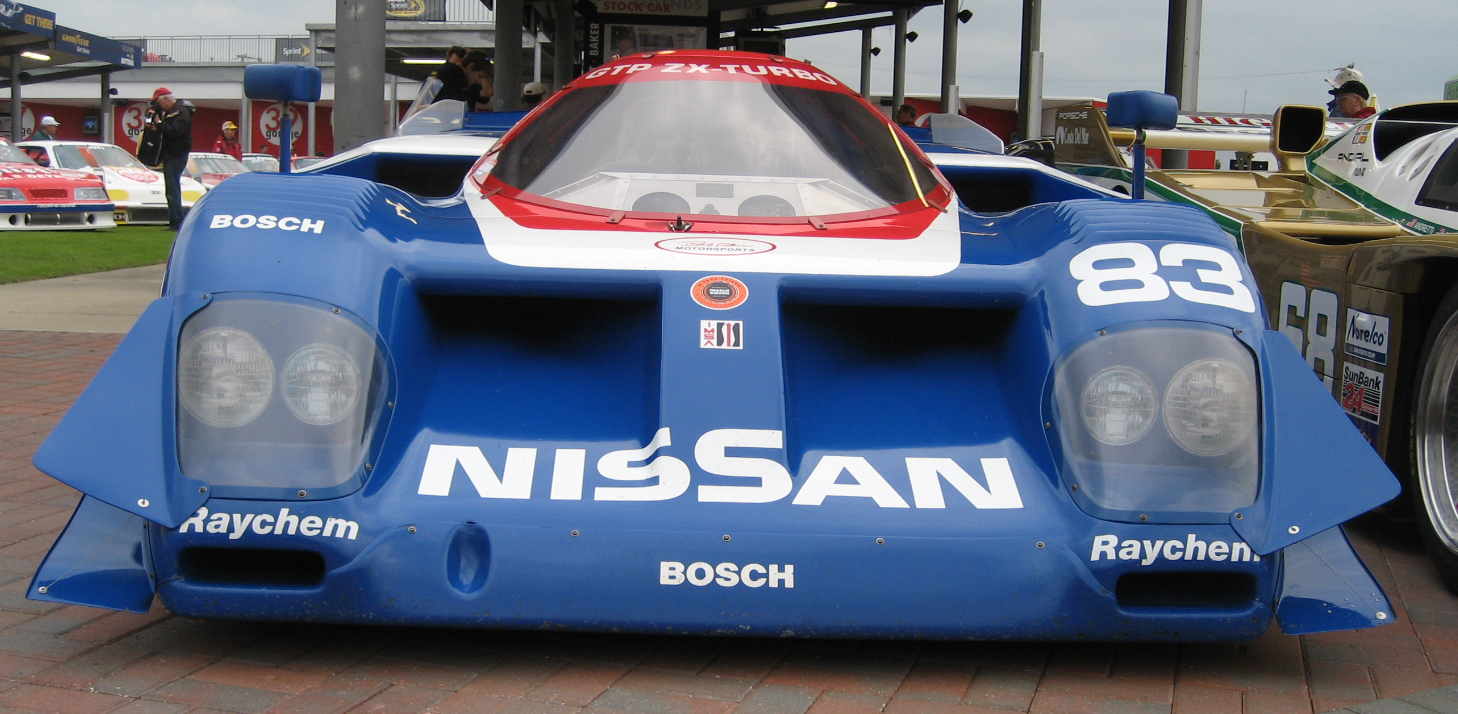 Nissan GTP ZX-Turbo chassis ZXT-8805.